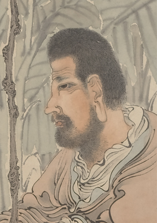 This painting depicts the eccentric and reclusive monk Zhidun from China during the Eastern Jin period.